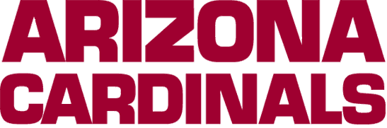 Arizona Cardinals wordmark logo from 1994 to 2004.